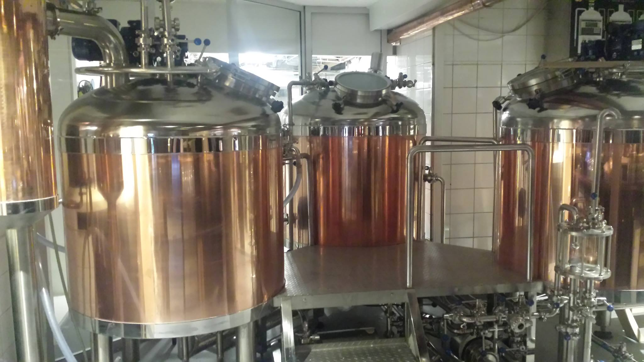 Zachariasbryggen Microbrewery in Bergen, Norway